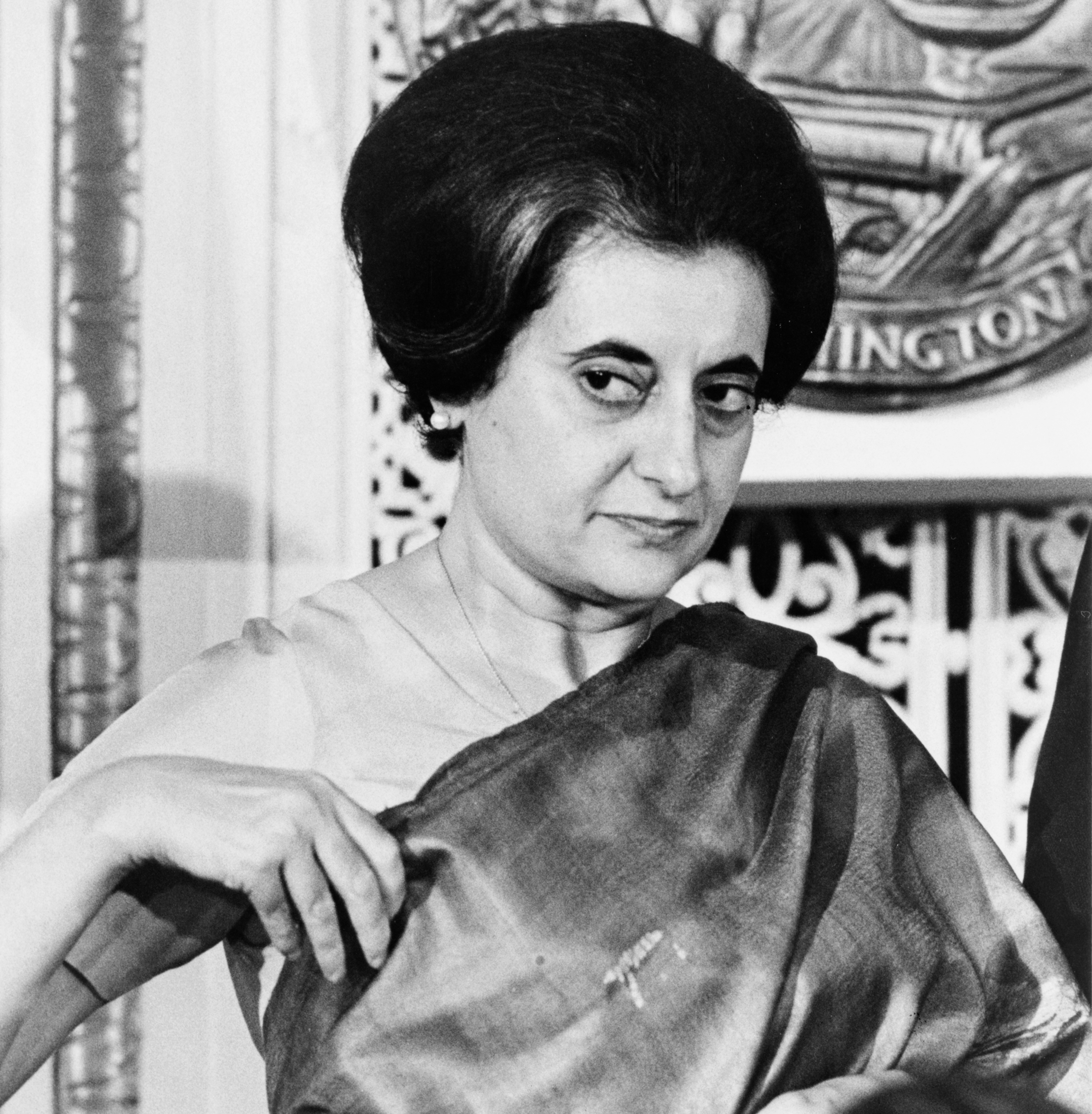 Indian Prime Minister Indira Gandhi (1917-1984) at the National Press Club, Washington, D.C. 1n 1966